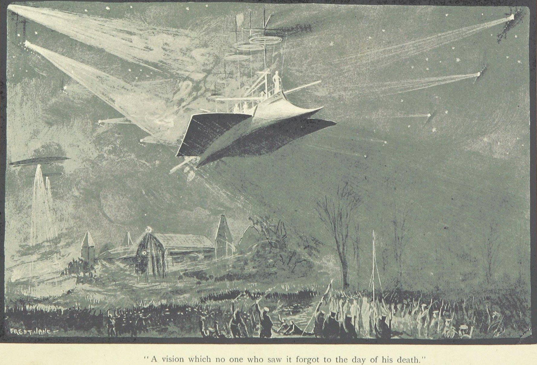 Image taken from: Title: "The Angel of the Revolution: a tale of the coming Terror. ... With illustrations by F. T. Janes" Author: JONES, George Chetwynd Griffith - afterwards GRIFFITH (George Chetwynd) Contributor: JANE, Frederick Thomas. Shelfmark: "British Library HMNTS 012630.h.1." Page: 284 Place of Publishing: London Date of Publishing: 1893 Publisher: Tower Publishing Co. Issuance: monographic Identifier: 001894767 Note: The colours, contrast and appearance of these illustrations are unlikely to be true to life. They are derived from scanned images that have been enhanced for machine interpretation and have been altered from their originals. If you wish to purchase a high quality copy of the page that this image is drawn from, please order it here. Please note that you will need to enter details from the above list - such as the shelfmark, the page, the book's volume and so on - when filling out your order. Following this or the link above will take you to the British Library's integrated catalogue. You will be able to download a PDF of the book this image is taken from, as well as view the pages up close with the 'itemViewer'. Click on the 'related items' to search for the electronic version of this work. Click here to see all the illustrations in this book and click here to browse other illustrations published in books in the same year. Please click on the tags shown on the right-hand side for other ways to browse the illustrations.